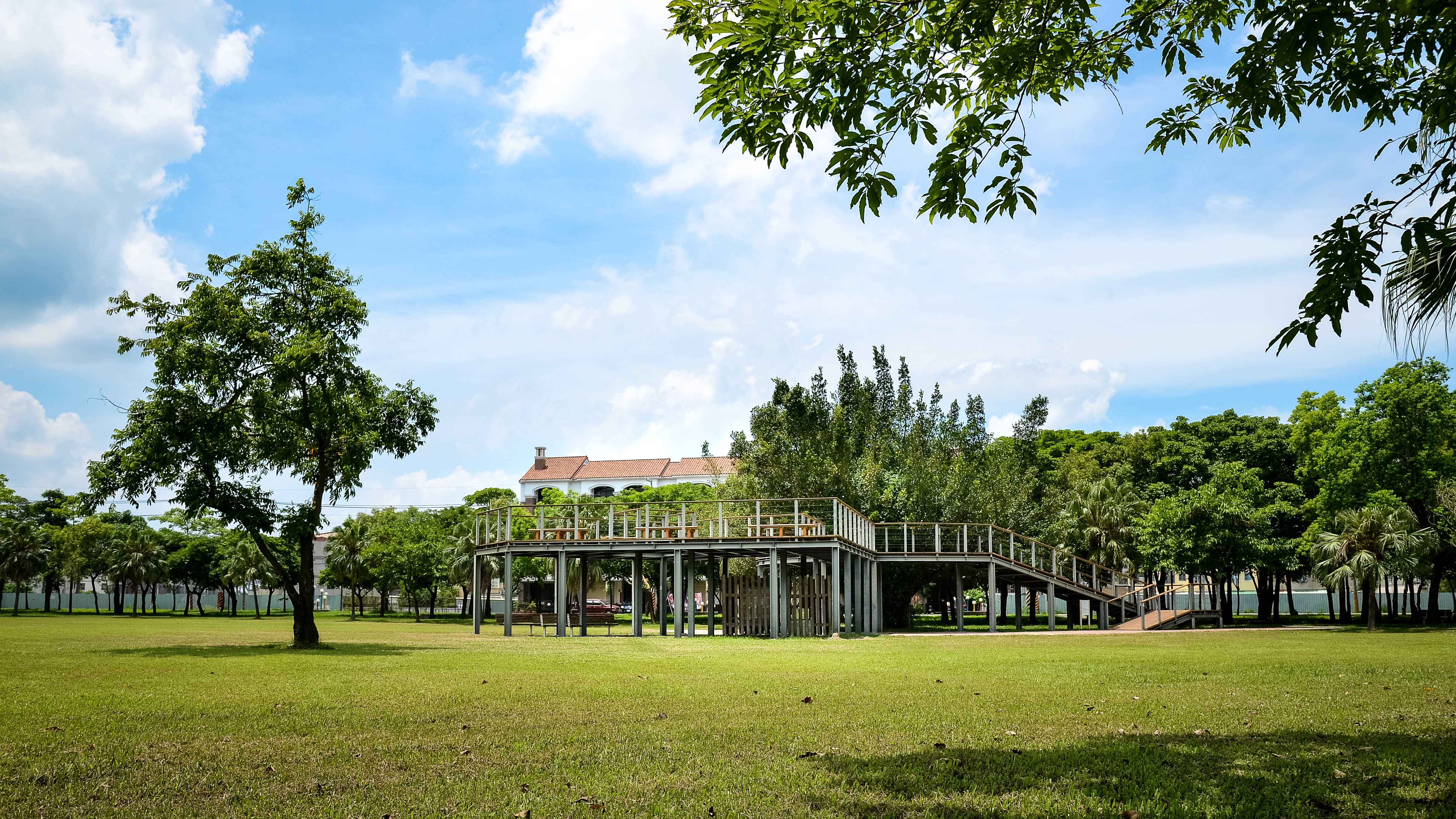 Dalin Sports Park, Dalin, Chiayi, Taiwan.tr